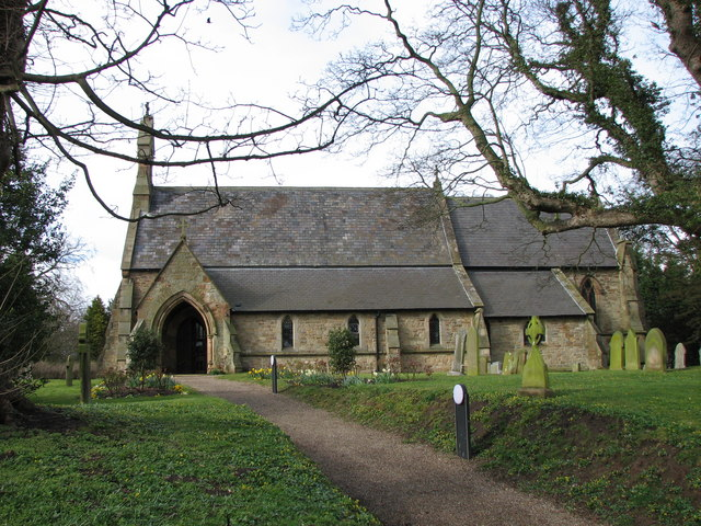 St Mary's Church, Long Newton Viewed from the south.